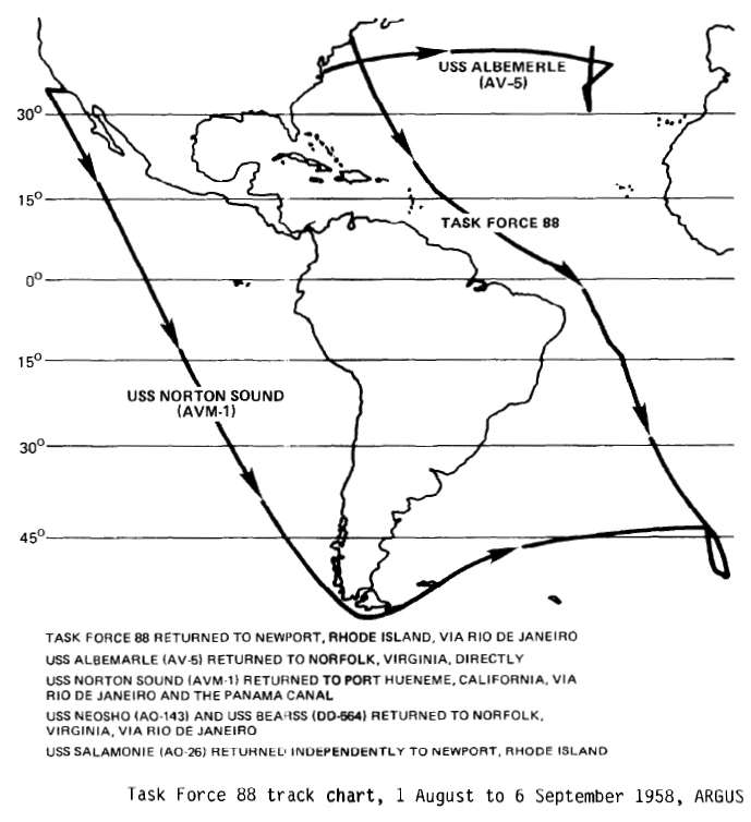 Track chart of the U.S. Navy ships and aircraft of Task Force 88 during the nuclear tests during "Operation Argus", 27 August to 6 September 1958.